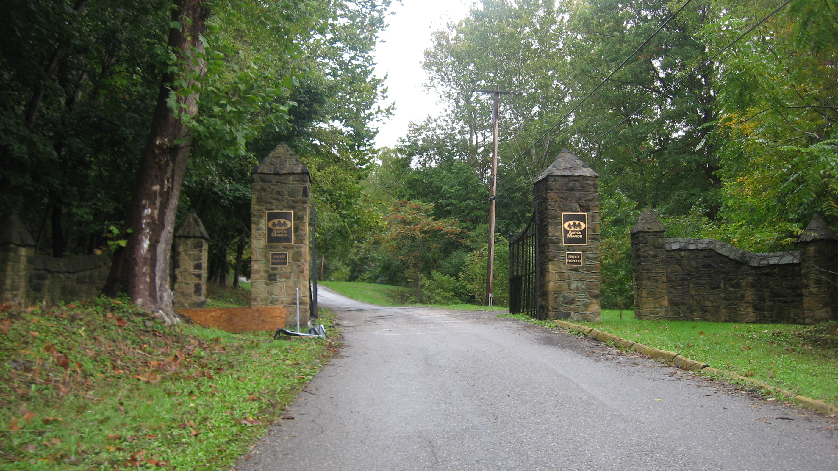 Gates to Vancroft, a historic former residential complex (now a nursing home) located at the end of Brinker Road in Wellsburg, West Virginia, United States. The complex is listed on the National Register of Historic Places.